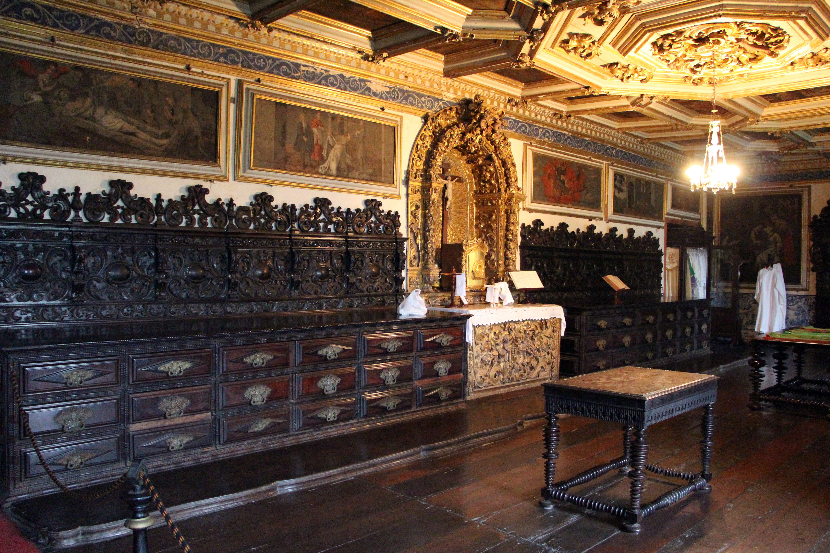 Sacristy, with view of sacristy cabinet, altar with retable, and paintings, Igreja de São Francisco, Salvador, Bahia, Brazil.